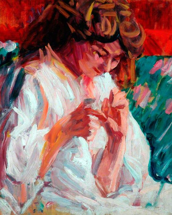 Girl Mending